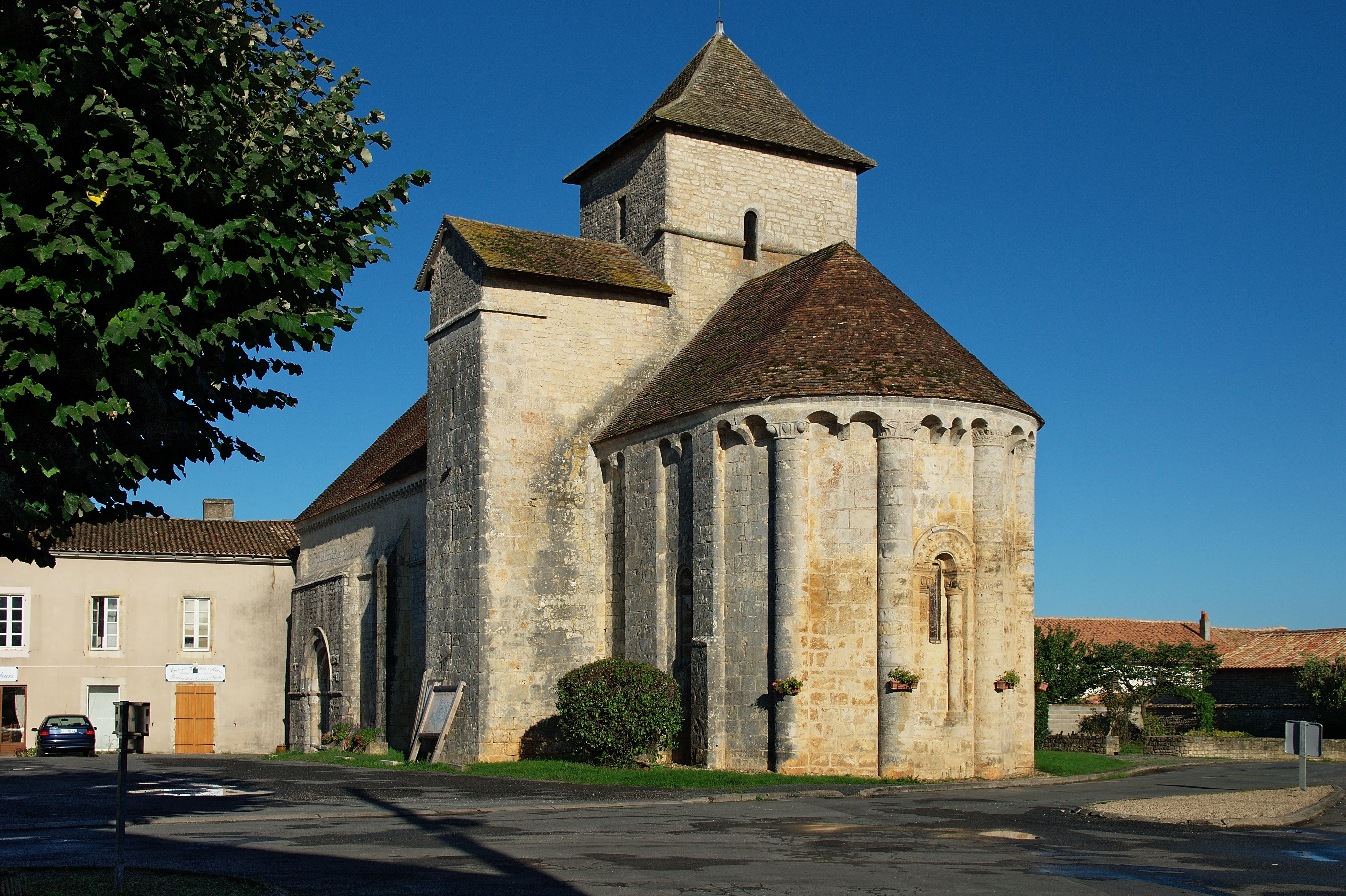 eastern aspect of village church